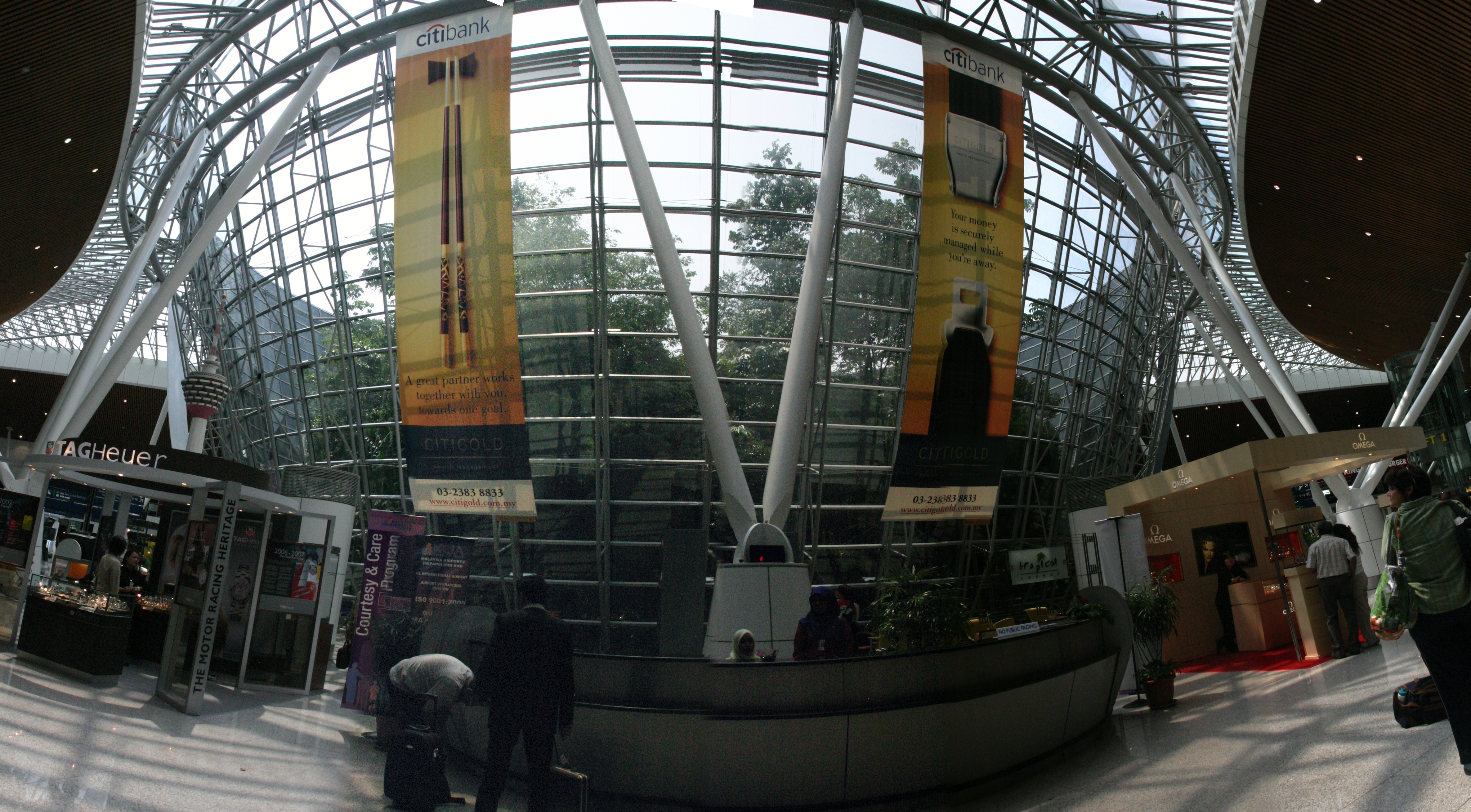 Airport in the forest, forest in the airport concept (By A. Aruninta)